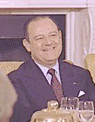 French Prime Minister Raymond Barre during a visit to Washington, September 15, 1977.